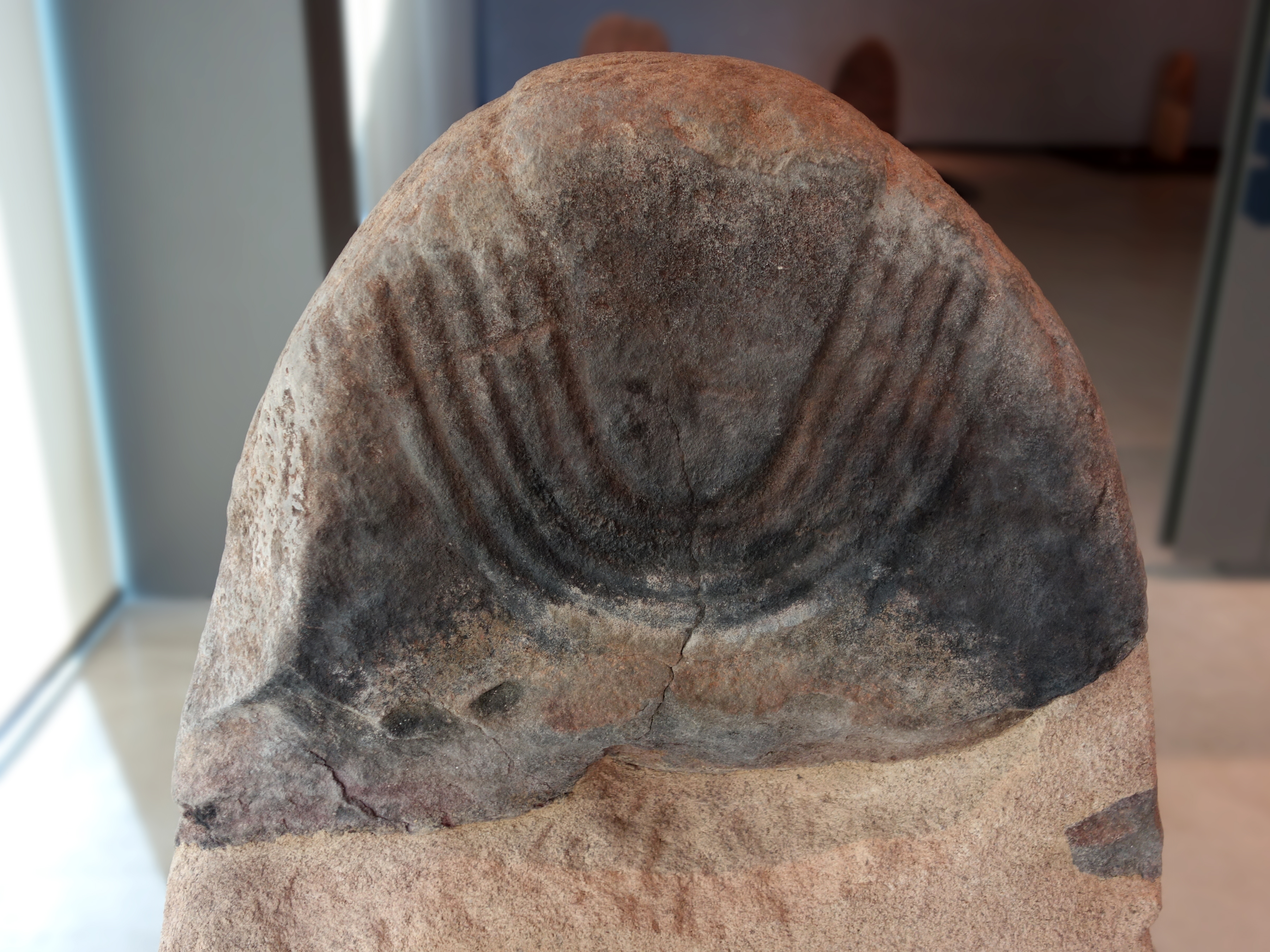 The menhir statue from Raffinie (Municipality of Martrin - Aveyron), discovered in 1880. Today, it remains only its upper part, the "head", showing a necklace of five rows. The other details of its "face" are now definitively erased.